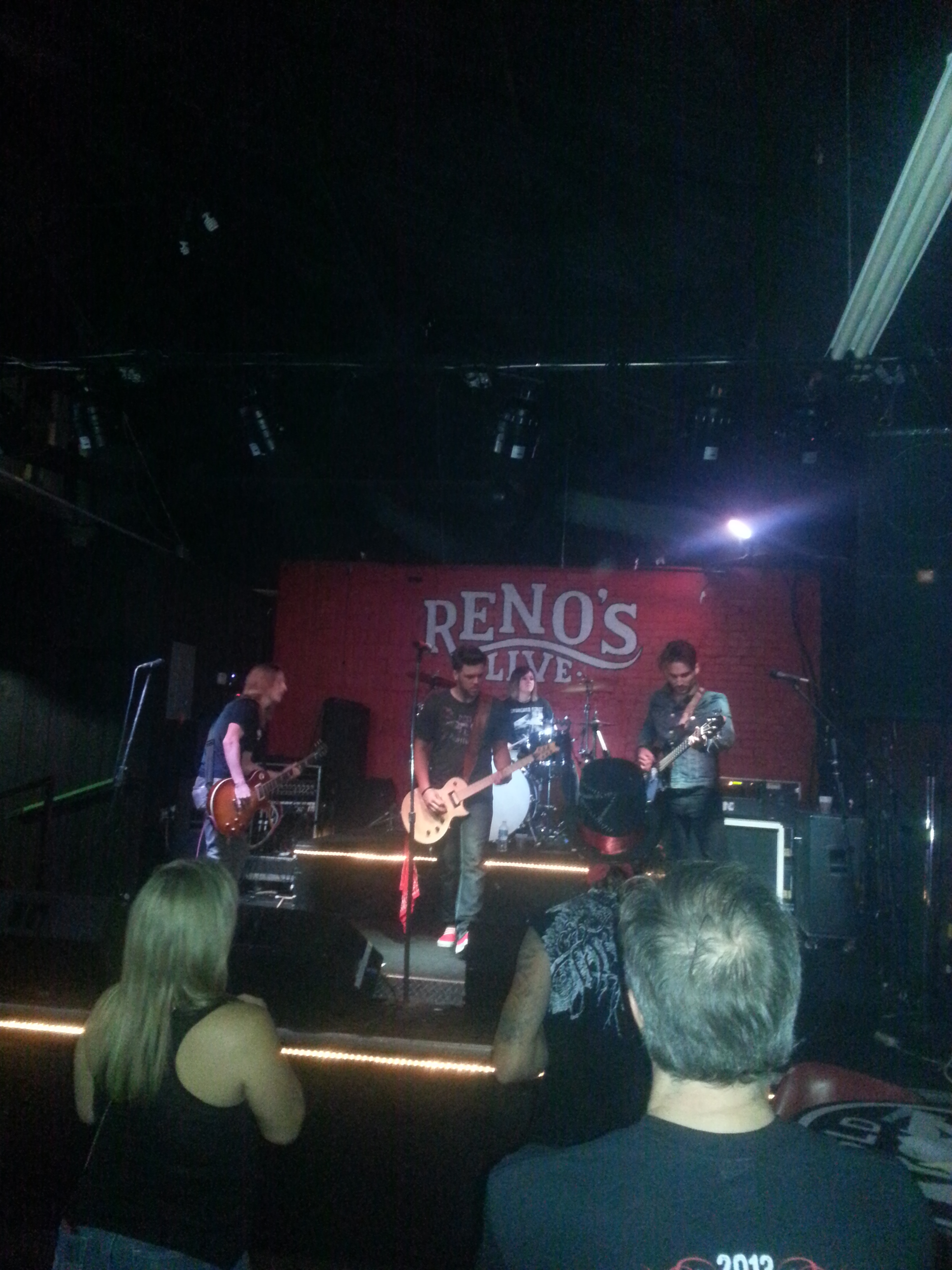 Nigel Dupree Band performing at Reno's Chop Shop in Dallas, Texas on June 11, 2013